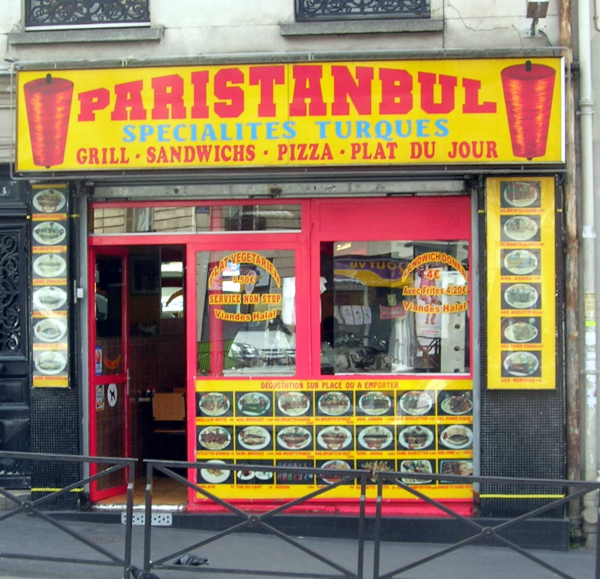 A Turkish Kebap shop in Paris called 'Paristanbul'.